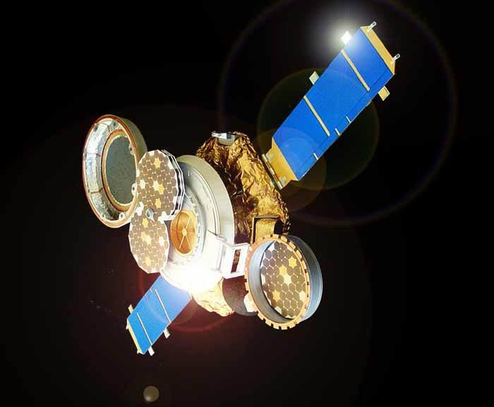 This artist's conception shows the Genesis spacecraft in collection mode, opened up to collect and store samples of solar wind particles.